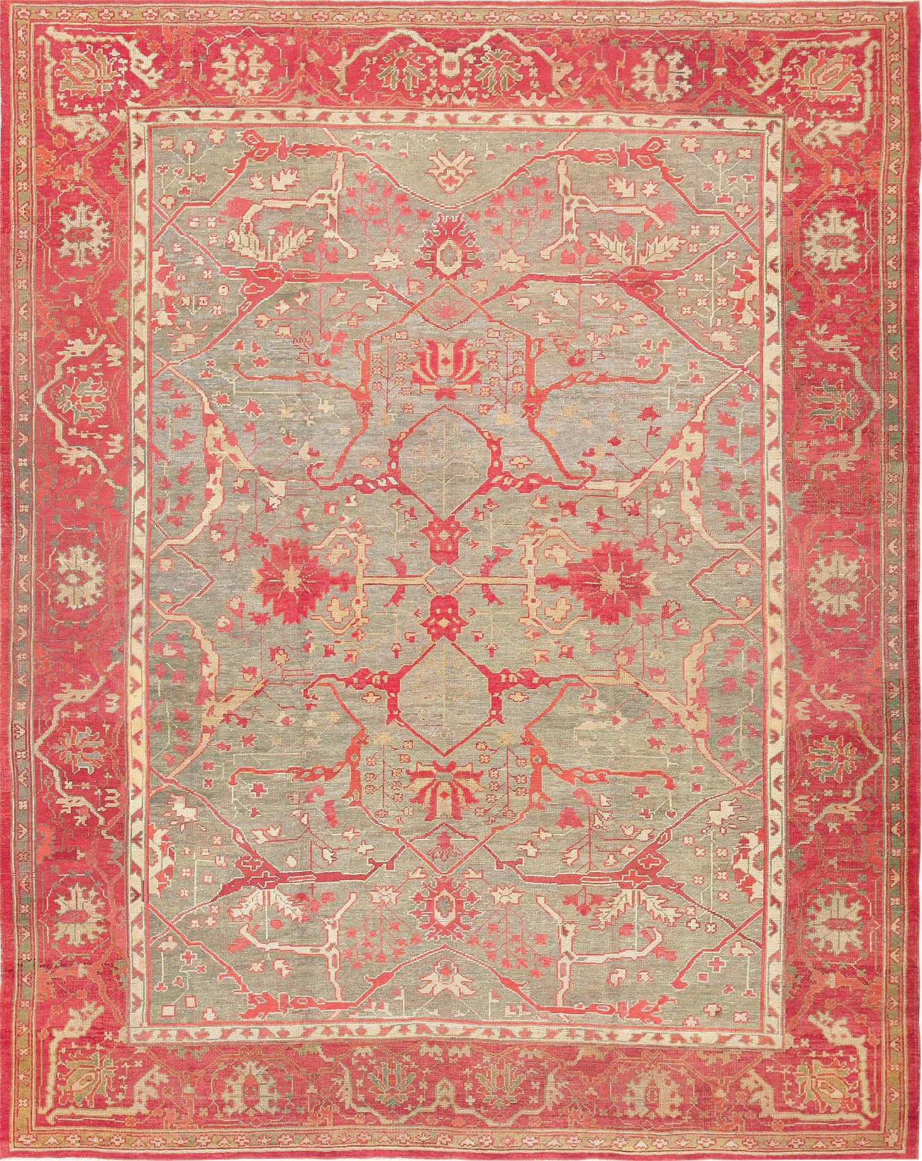 Woven in Western Turkey since the beginning of the Ottoman period, these are one of the great masterpieces of early Turkish weaving from the fifteenth to the seventeenth centuries.